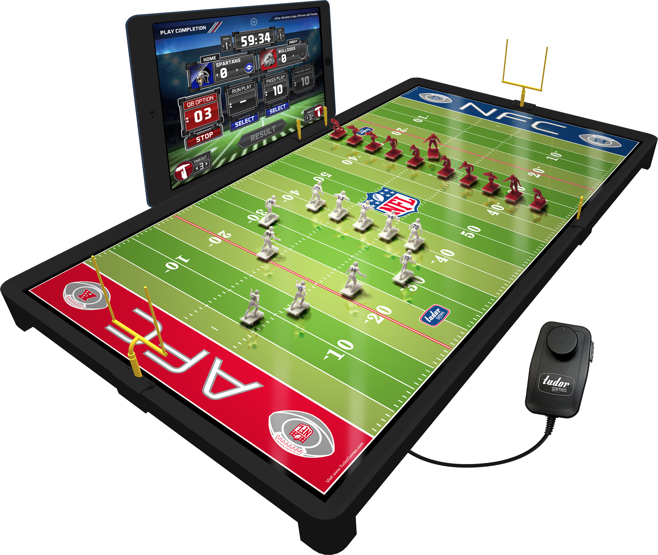 As of 2016 a digital app for iphones and android phones now accompanies the Electric Football game.